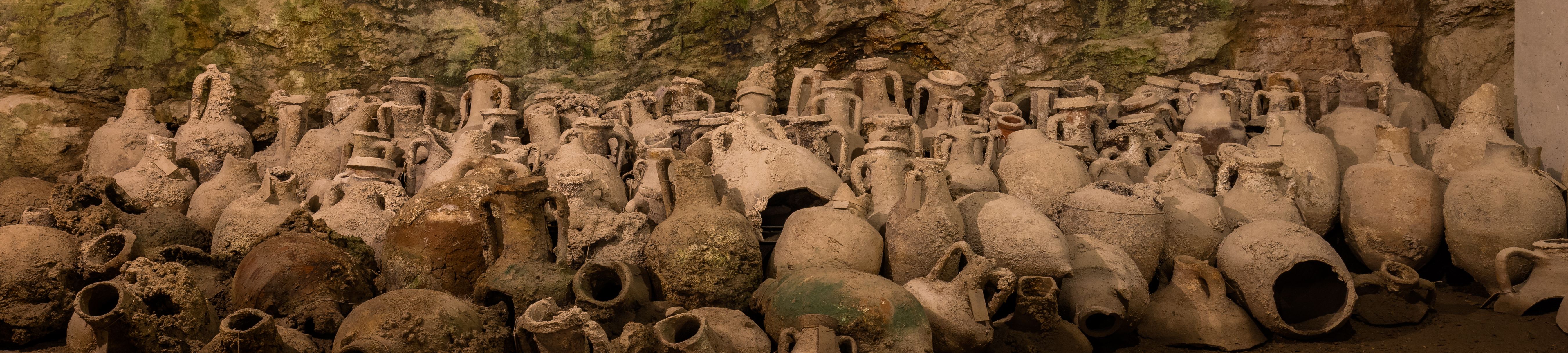 Amphoras of the underground exhibition in the Pula Arena, an amphitheatre located in Pula, Croatia. This Roman edifice was constructed between 27 BC and 68 AD and is among the largest surviving Roman arenas in the world. At the same time, is the best preserved ancient monument in Croatia and the only remaining amphitheater having all four side towers with all three Roman architectural orders entirely preserved.